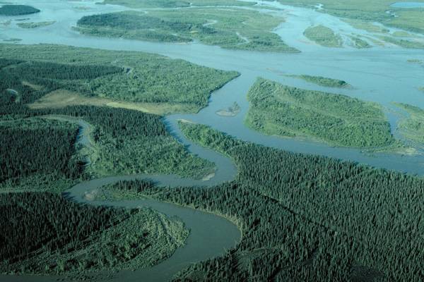 This photo taken by myself, south of the town of Noatak near the mouth of the river. Robert Stein III.